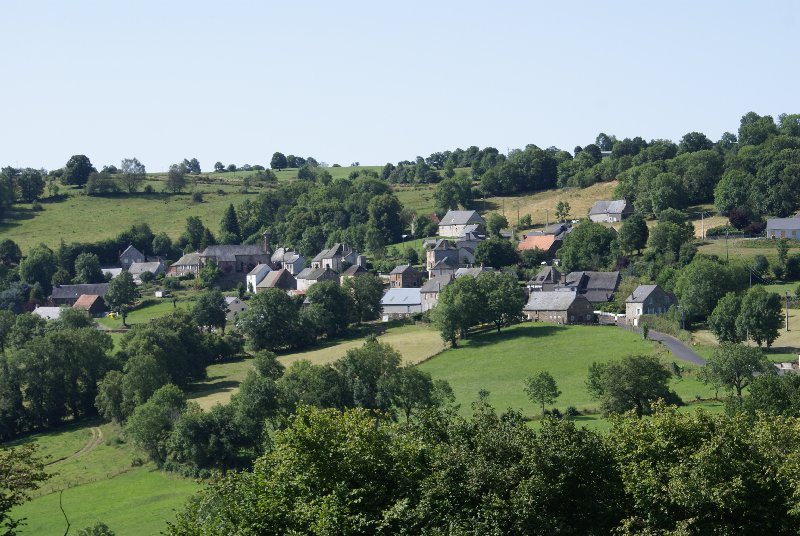 Le Monteil (Cantal, Auvergne, France) overview